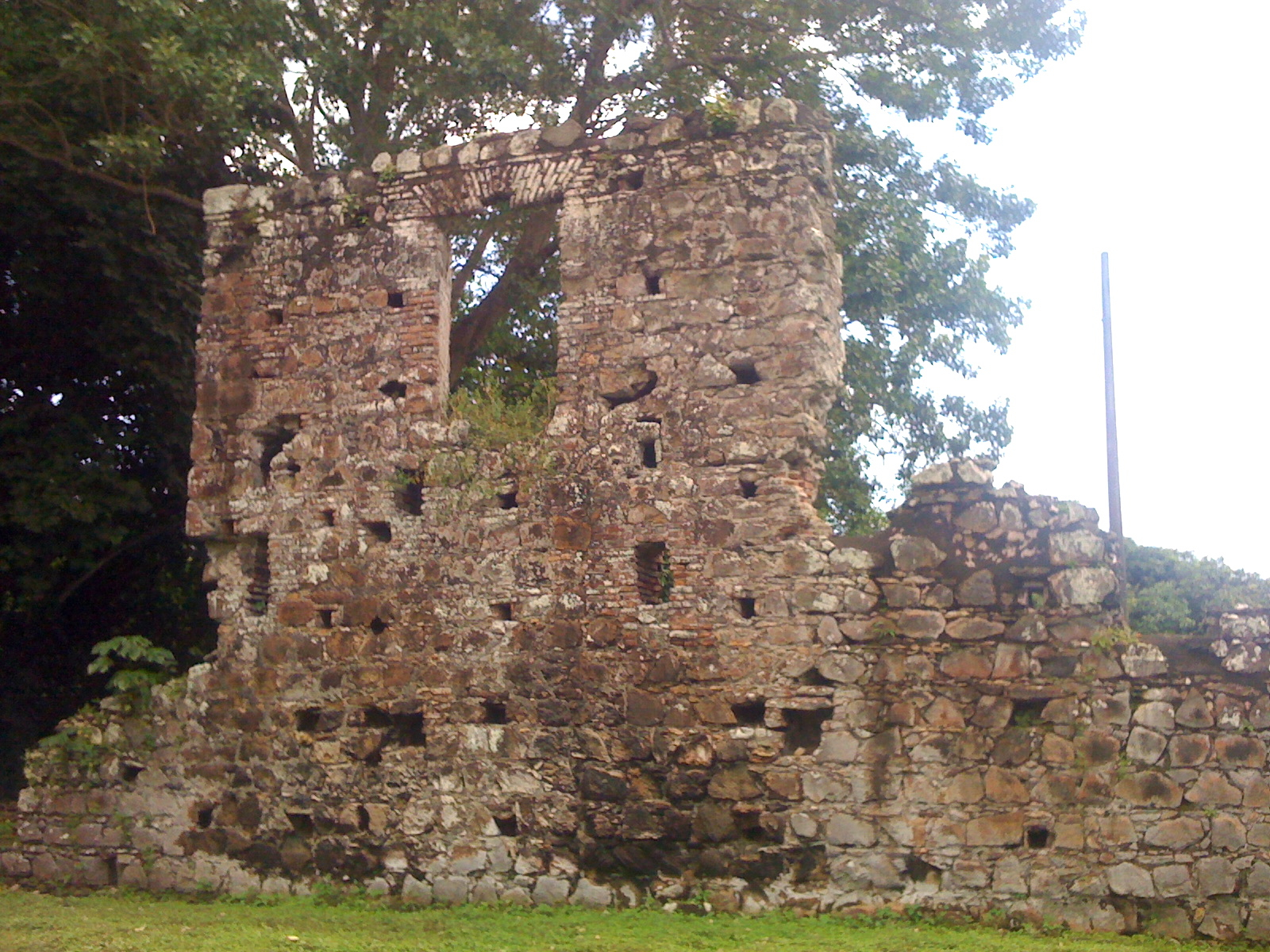 ruins of genoese harbor house of Panama viejo